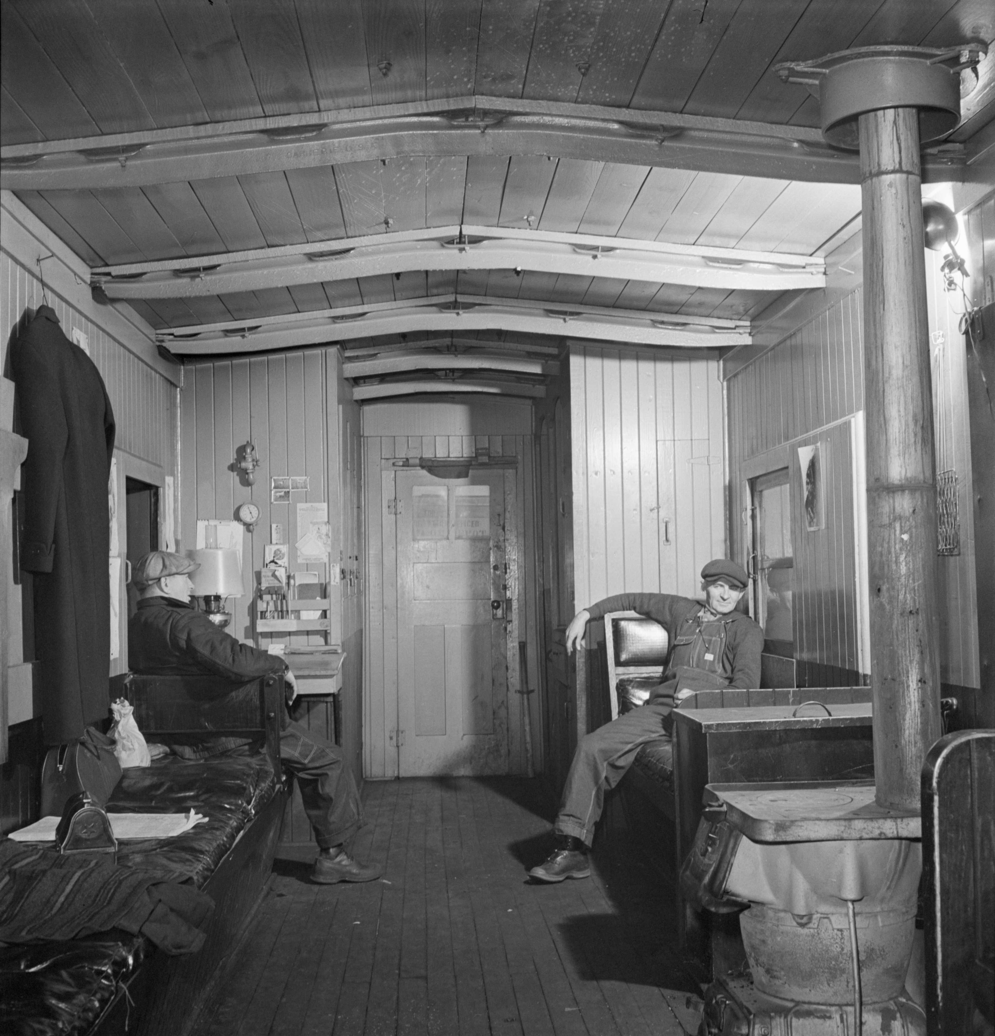 Freight operations on the Indiana Harbor Belt railroad between Chicago, Illinois and Hammond, Indiana. Belt Line cabooses never go long distances or at very high speeds and are therefore constructed differently from line cabooses.